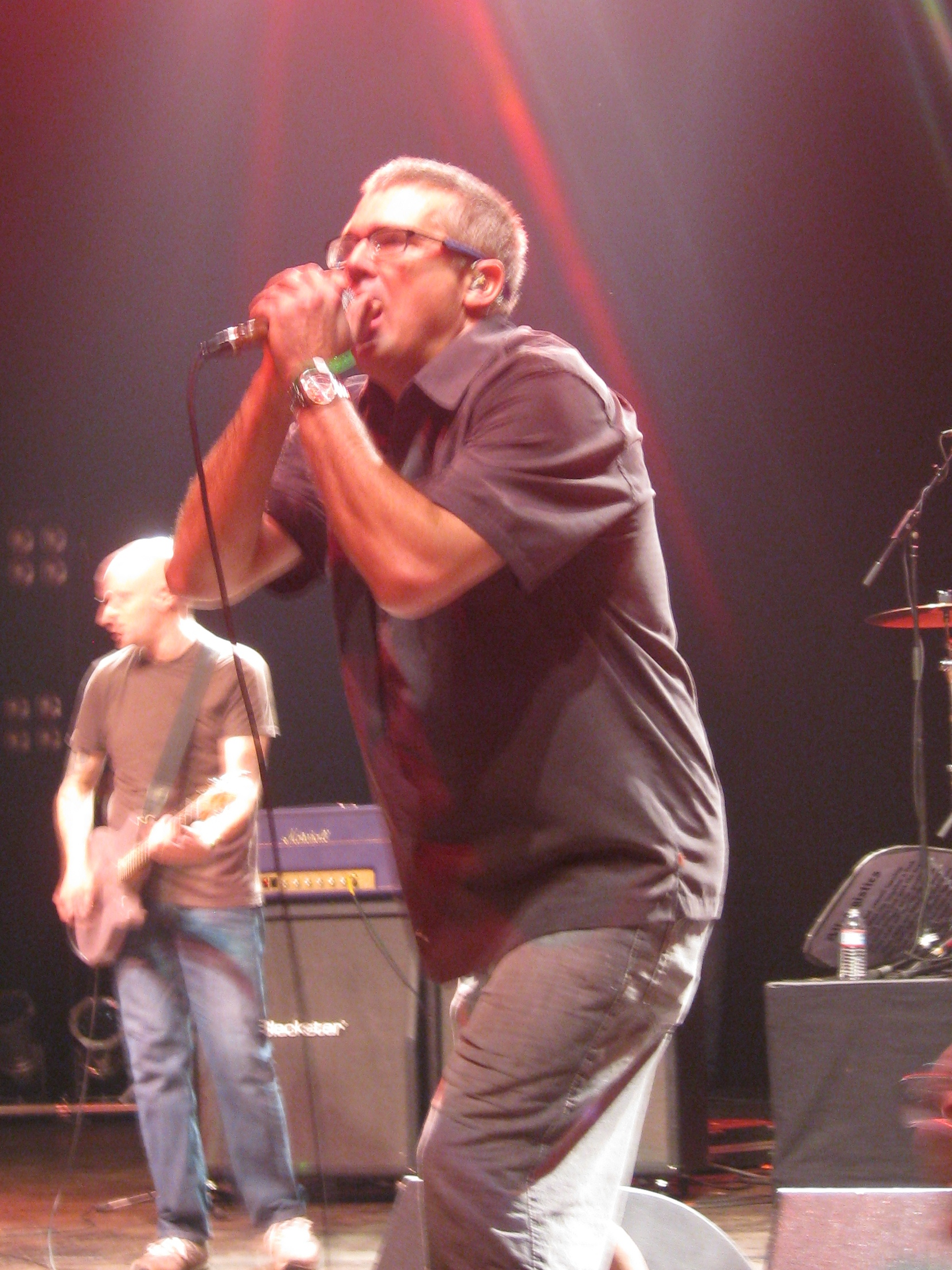 The Descendents performing December 18, 2011 at the Santa Monica Civic Auditorium in Santa Monica, California as part of the GV30 event, showing guitarist Stephen Egerton (left) and singer Milo Aukerman (center).